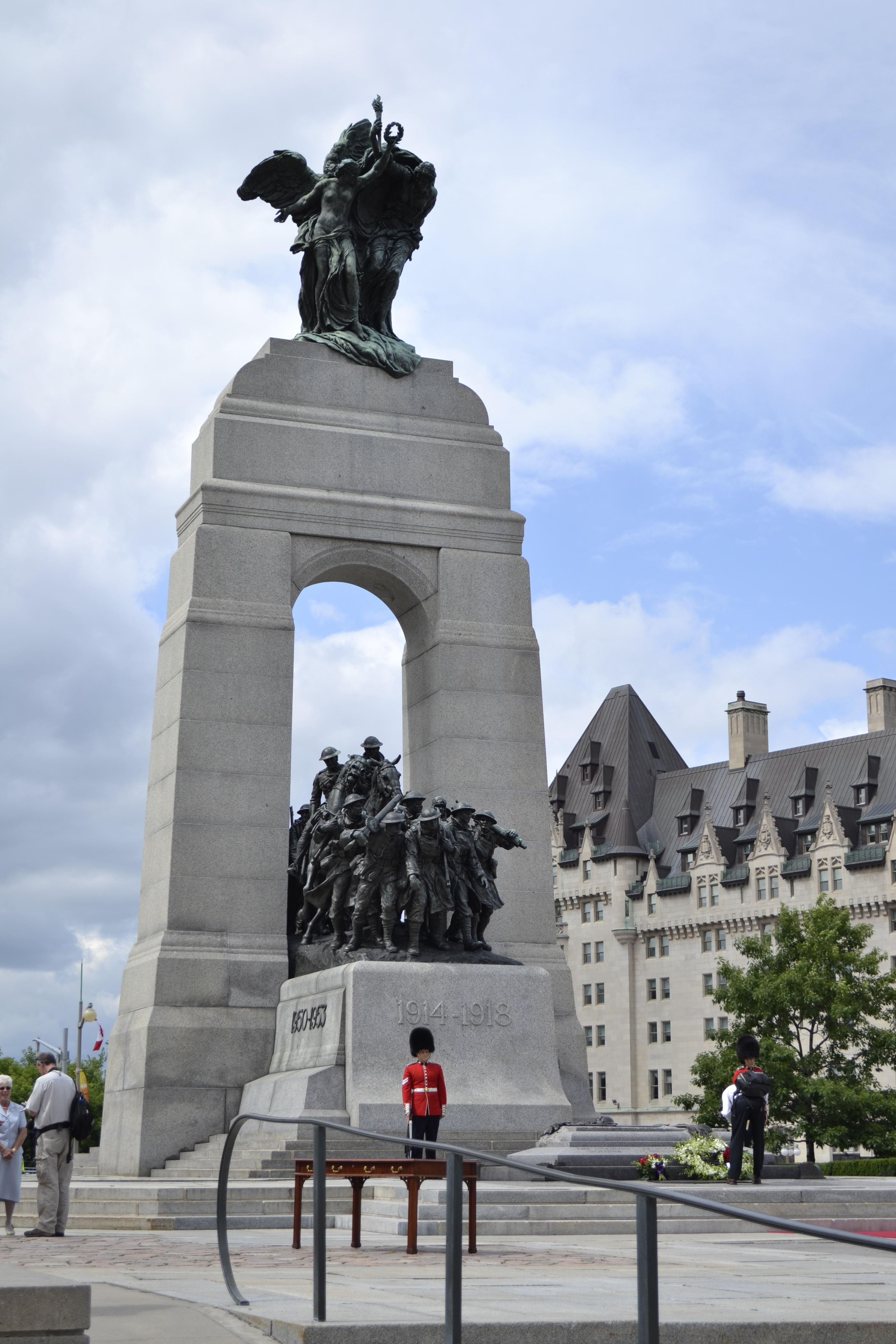 The Canadian National War Memorial in Ottawa after the visit by William, Duke of Cambridge and Catherine, Duchess of Cambridge